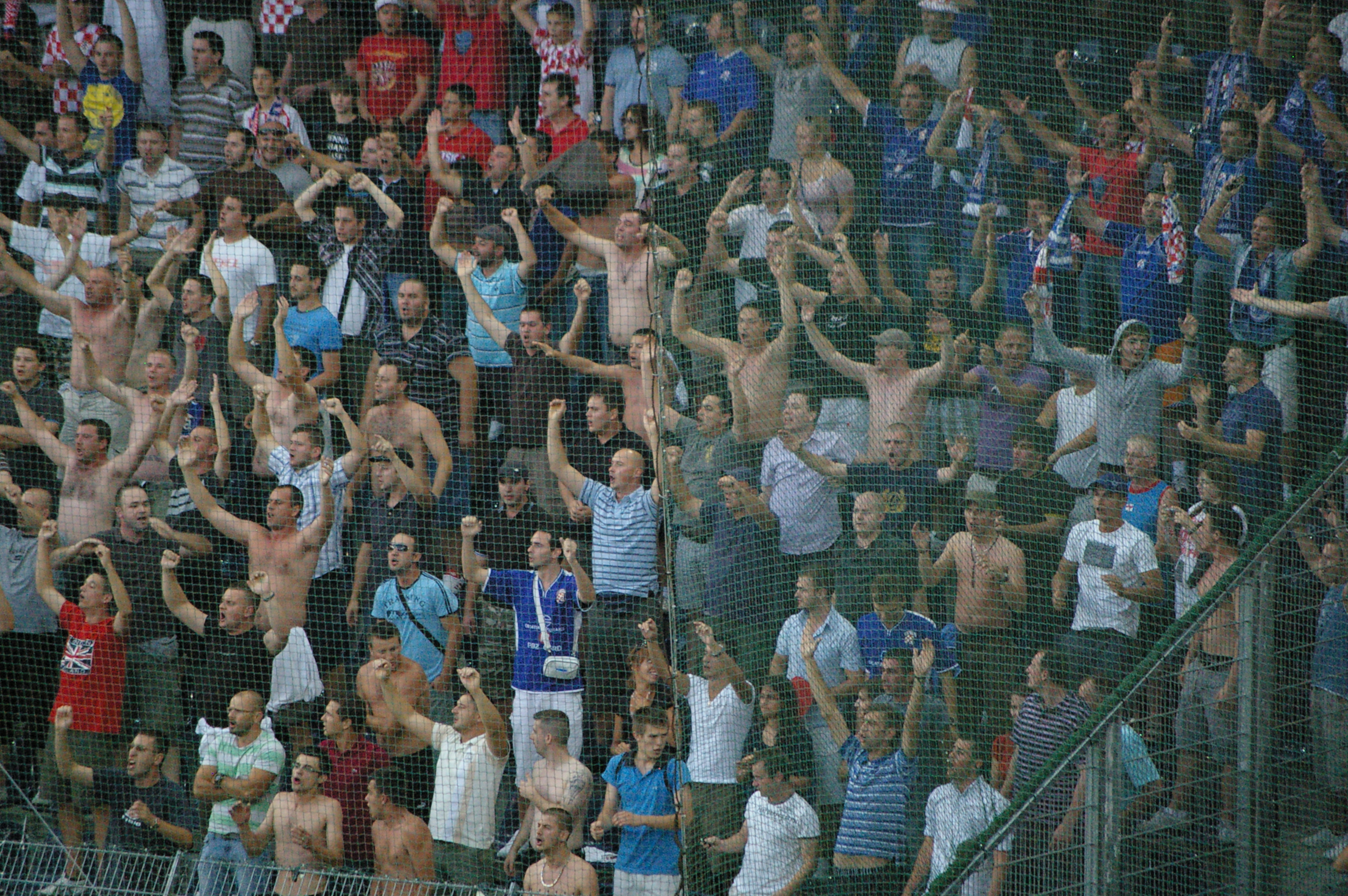 Dinamo Zagreb supporters Quampions League qualifier 3rd round vs.Red Bull Salzburg